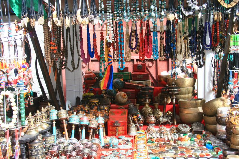 Souvenirs in Lhasa